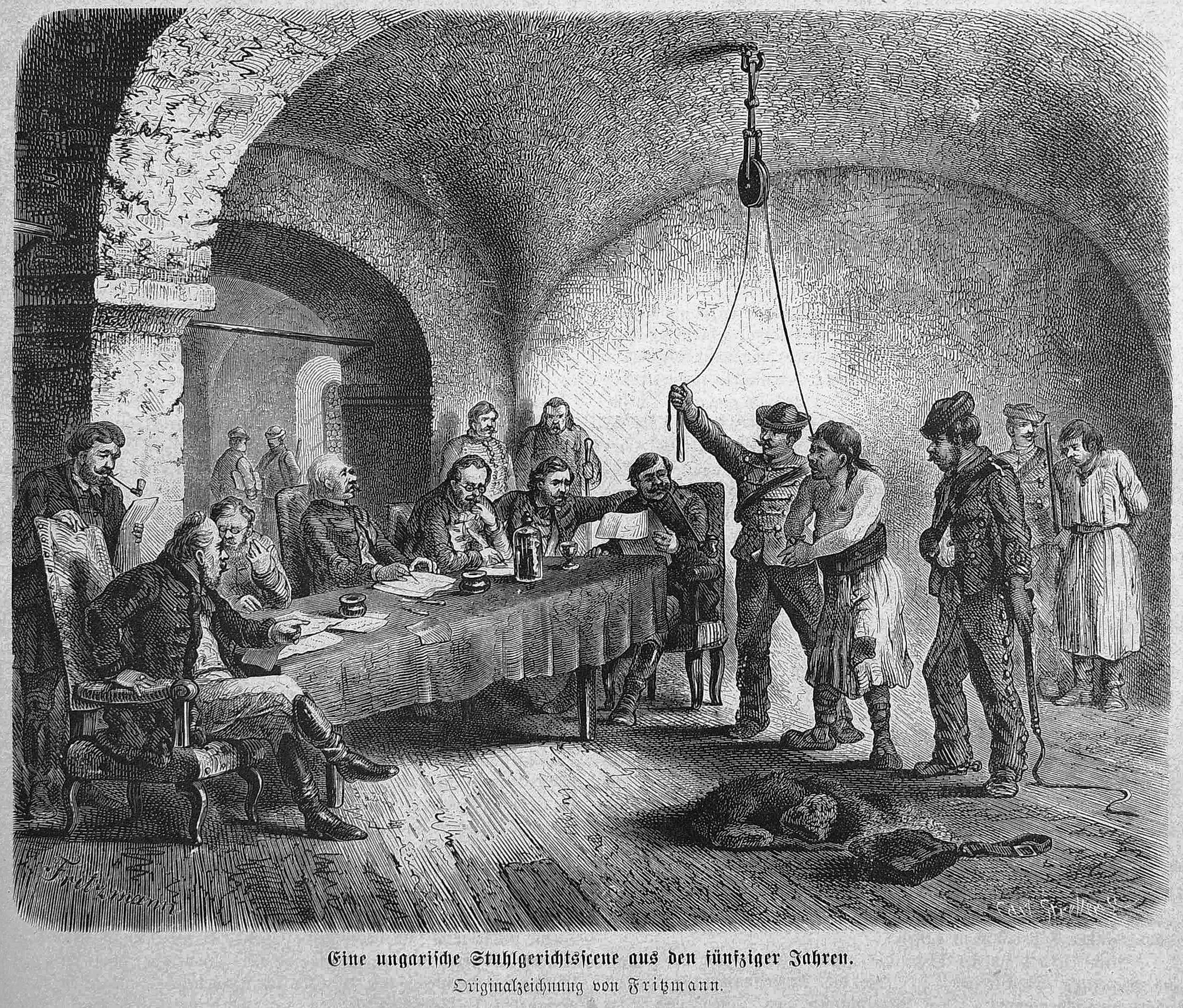 caption: "Eine ungarische Stuhlgerichtsscene aus den fünfziger Jahren. Originalzeichnung von Fritzmann."